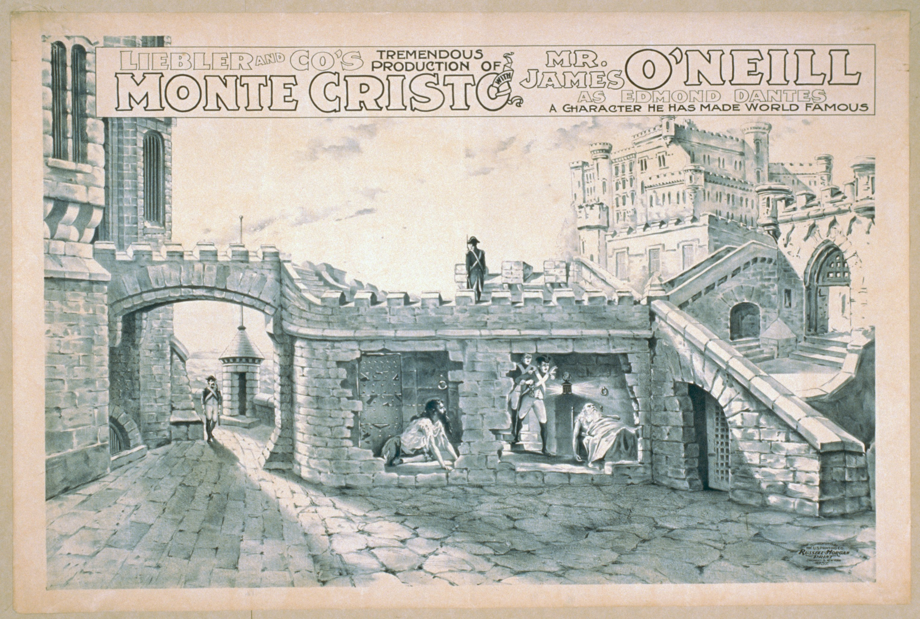 Title: Liebler and Co's tremendous production of Monte Cristo with Mr. James O'Neill as Edmond Dantes, a character he has made world famous. Abstract/medium: 1 print : color lithograph ; sheet 71 x 108 cm. (poster format)